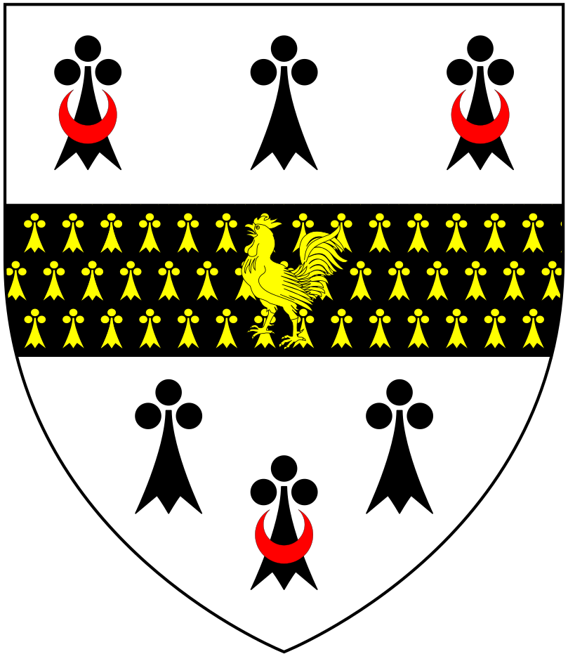 Arms of Mogg of Farrington Gurney and Cholwell in Somerset: Argent, on a fess pean between six ermine spots the two exterior in chief and the centre spot in base surmounted by a crescent gules a cock or (Burke's Genealogical and Heraldic History of the Landed Gentry, 15th Edition, ed. Pirie-Gordon, H., London, 1937, pp.1610-1611, pedigree of "Rees-Mogg of Cholwell", p.1611)